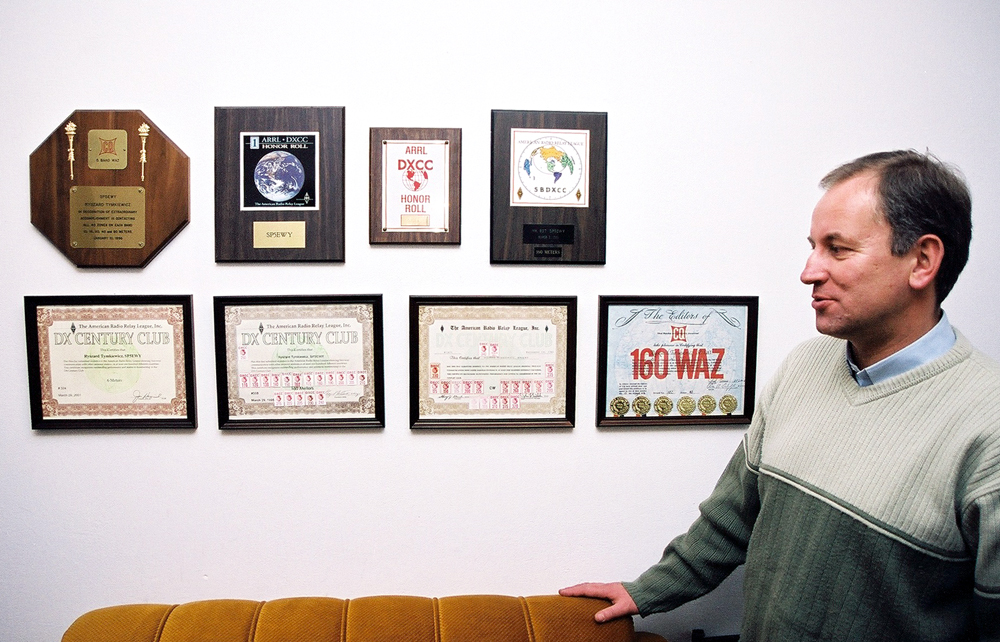 An impressive collection of awards and achievement plaques for Amateur Radio activitities on display by the owner - Ryszard Tymkiewicz of Warszawa, Poland. His call sign is SP5EWY